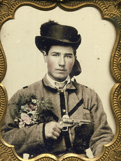 John David Tanner (1841-1824), Co F, 28th Virginia Infantry, Ninth-plate ambrotype by an anonymous photographer, Seth McCormick-Goodhart Collection